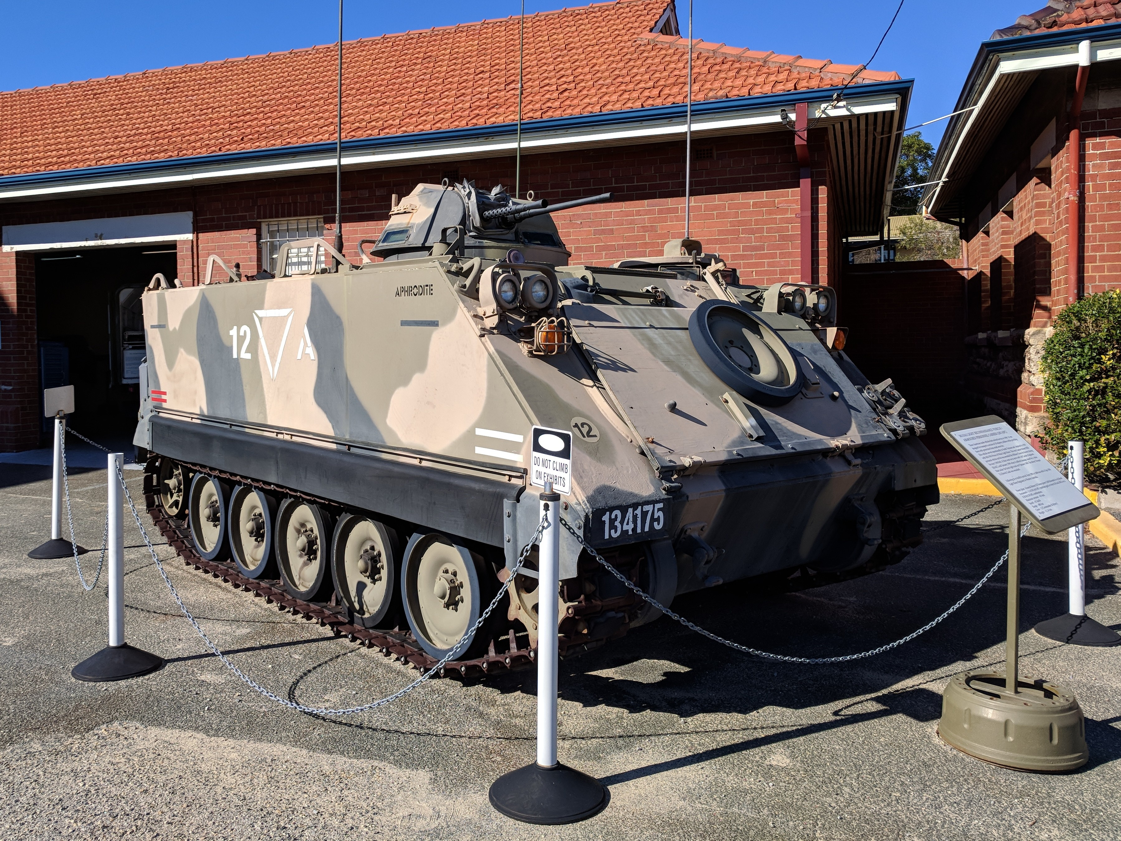 A former Australian Army M113 on display at the Army Museum of Western Australia